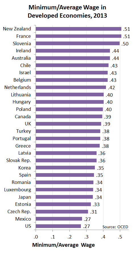 Minimum wage levels in OECD countries as a share of average full-time wage, 2013.